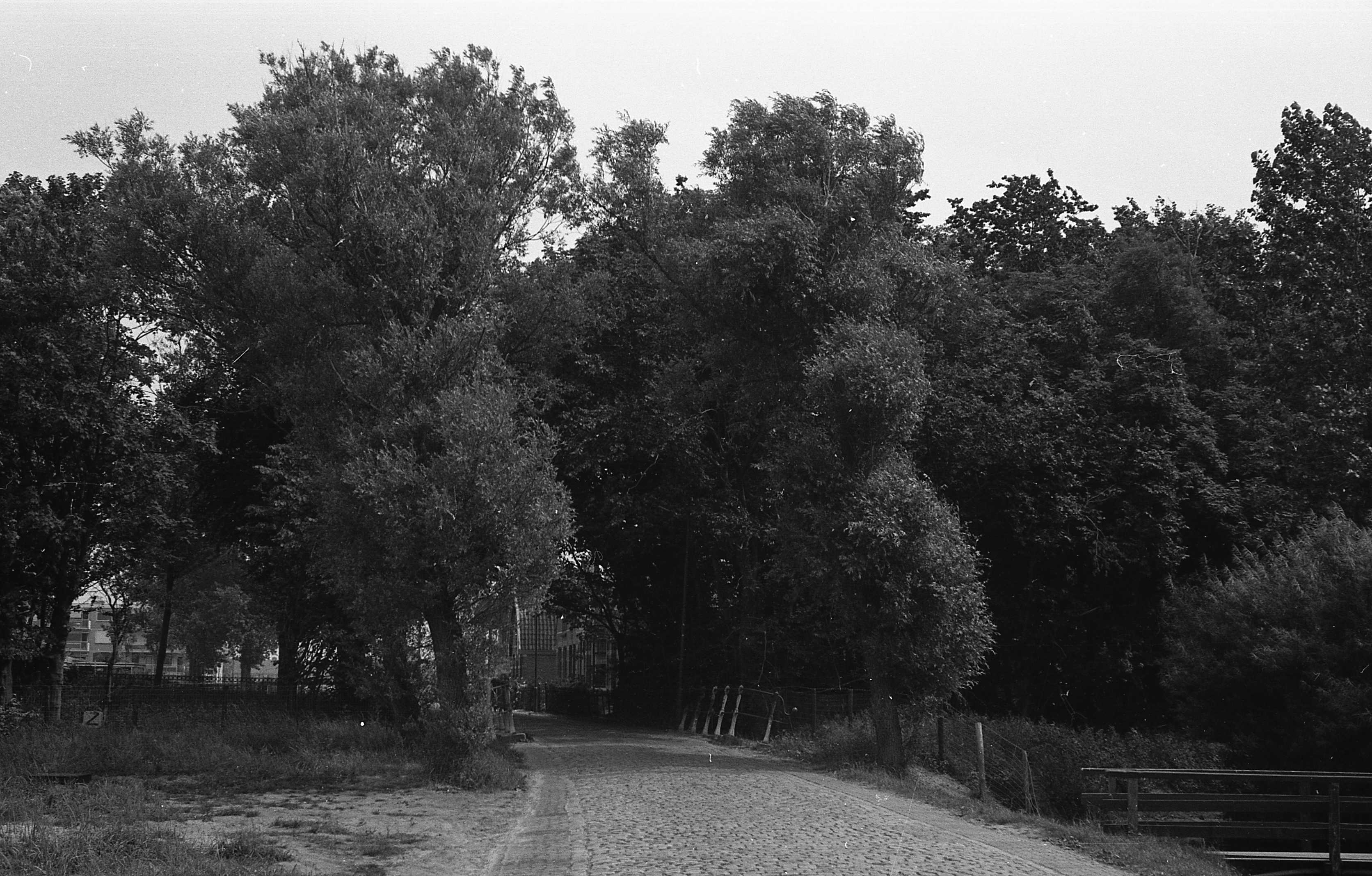 The entry to the old village from the Munnikenweg